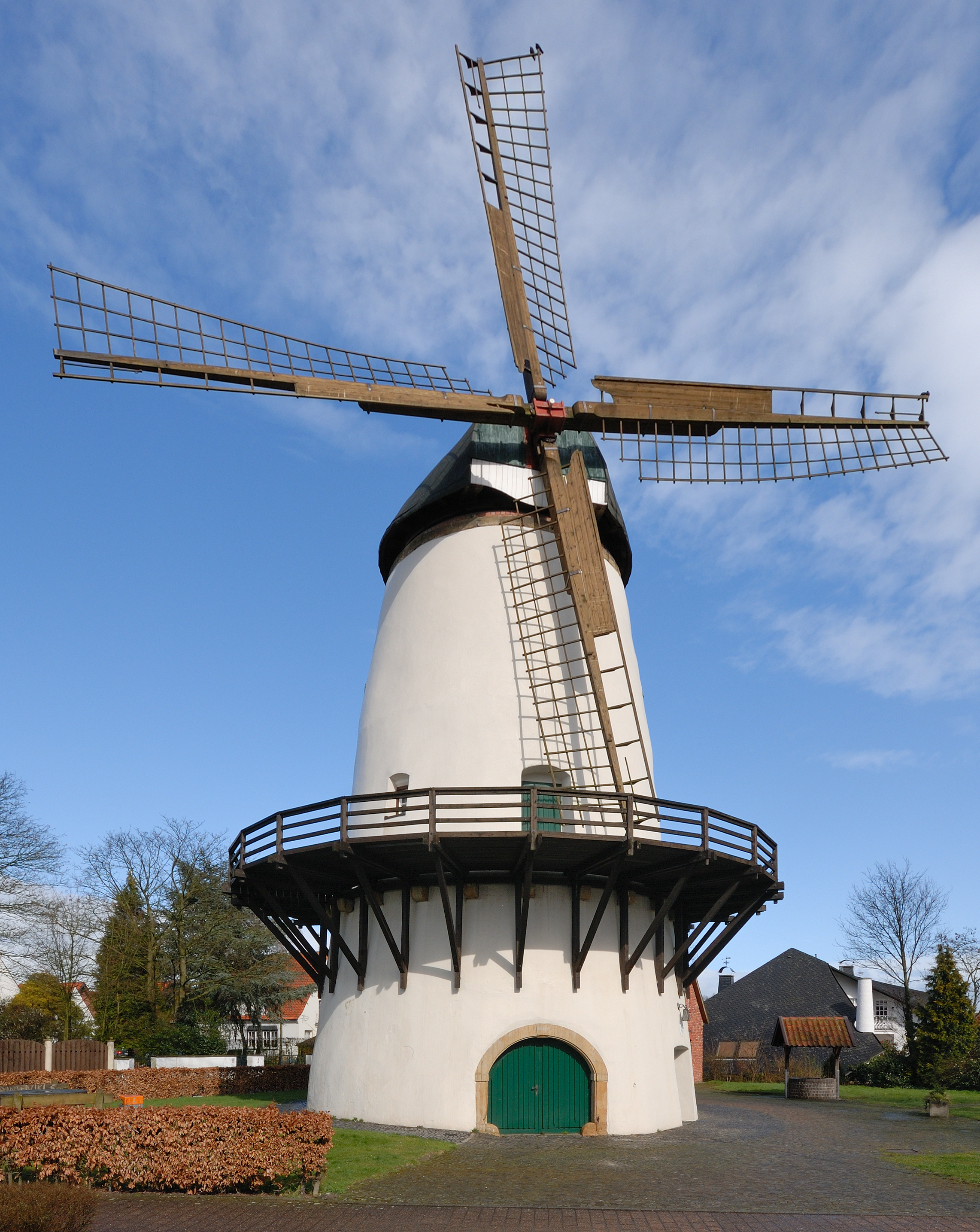 Glandorf windmill, landmark of the town.